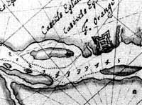 A 1629 map of Albany, New York area showing Fort Orange and Castle Island; the original is in the Library of Congress.